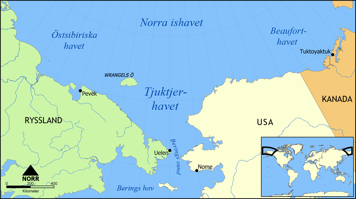 Map showing the Chukchi Sea, north of the Bering Strait and Sea, between Russia and the United States. Created by NormanEinstein, May 31, 2006. See also Image:Chukchi Sea map-fr.svg